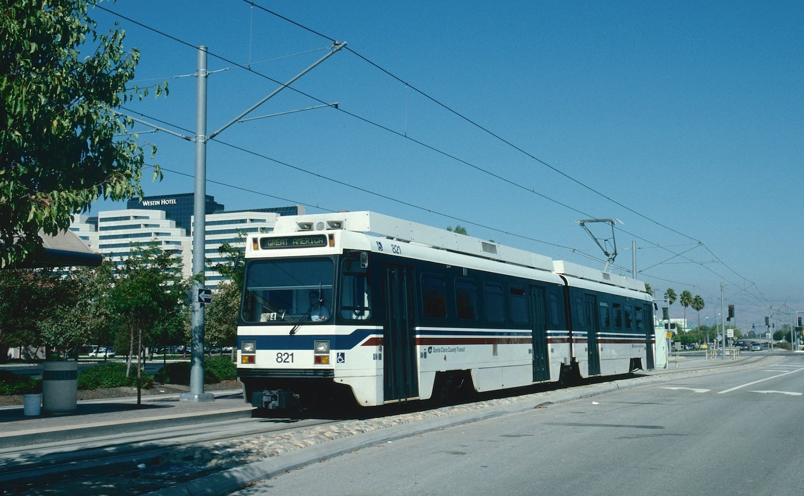 Santa Clara County Transit LRV 821 arriving at Old Ironsides station (in Santa Clara, California), which was the northern terminus of the light rail system's only line at the time, in 1993. It had already crossed over to the "inbound" track and will reverse ends at the station and depart from the same track, headed in the opposite direction. Car 821 was built in 1987 by the Urban Transportation Development Corporation (UTDC). (The San Jose-based Santa Clara County Transit District and its parent, the umbrella organization known as the Santa Clara County Transportation Agency, were replaced by the Santa Clara Valley Transportation Authority in 1995.)